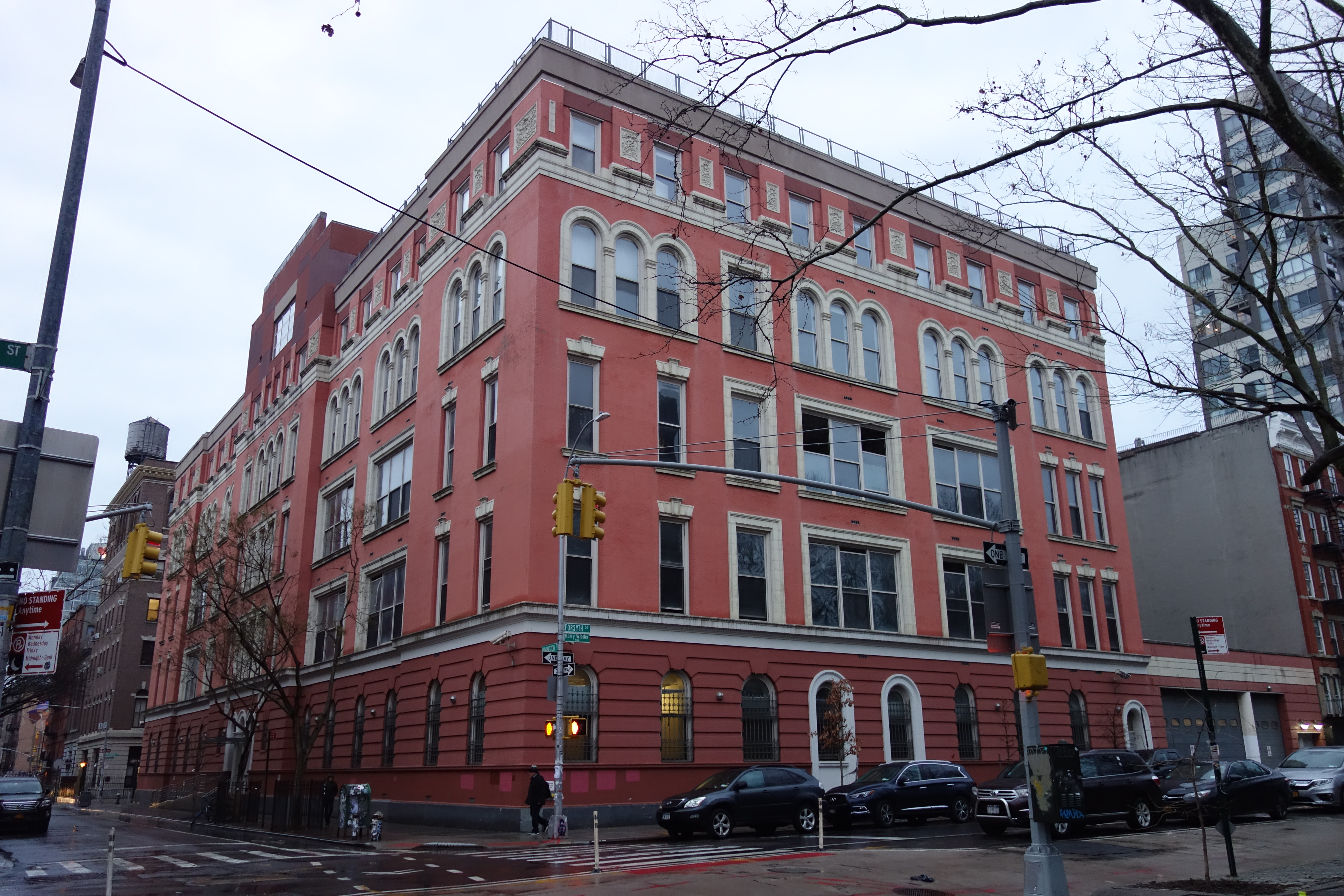 Looking at the Rivington House, at the southeast corner of Rivington Street and Forsyth Street in Lower East Side. The building was constructed as Public School 20 at the turn of the 20th Century, and was later used as a nursing home.